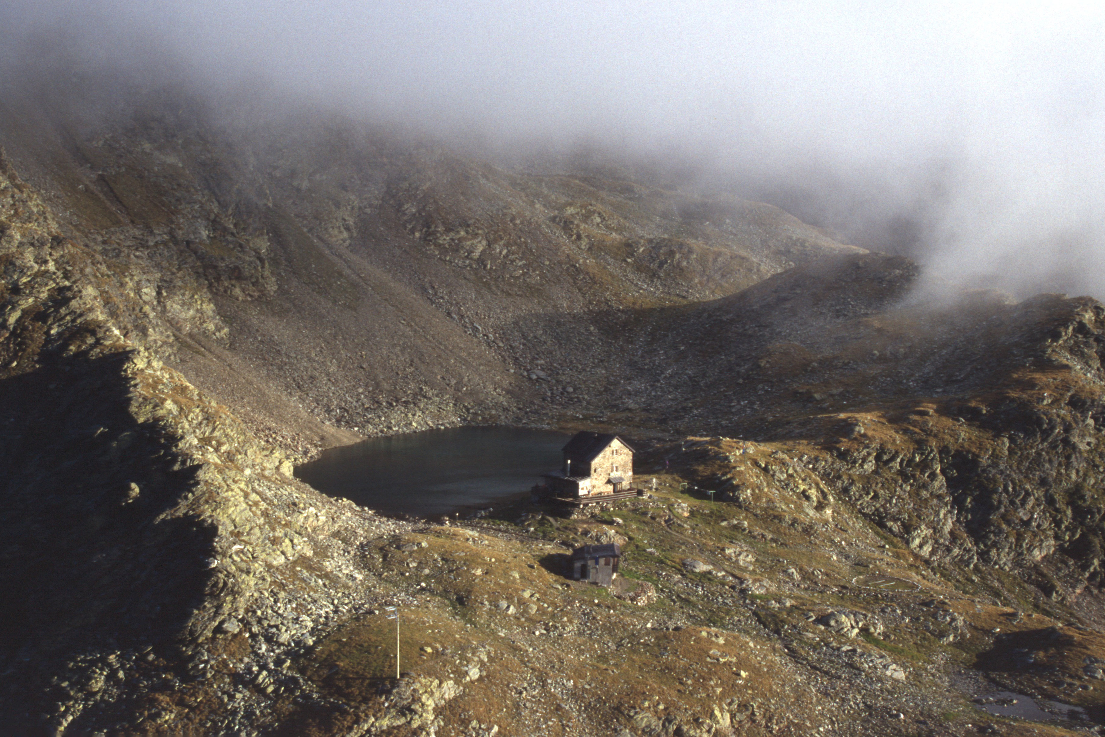 Flaggerschartenhütte from North, from ascent to Jakobsspitze